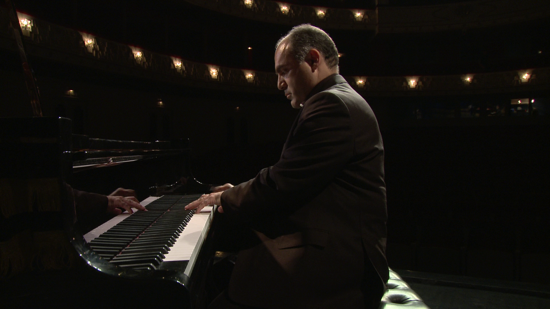 Bardia Sadrenoori Solo Perfomance at Roudaki hall, "Life Goes On" Persian Classical Piano Improvisation Concert